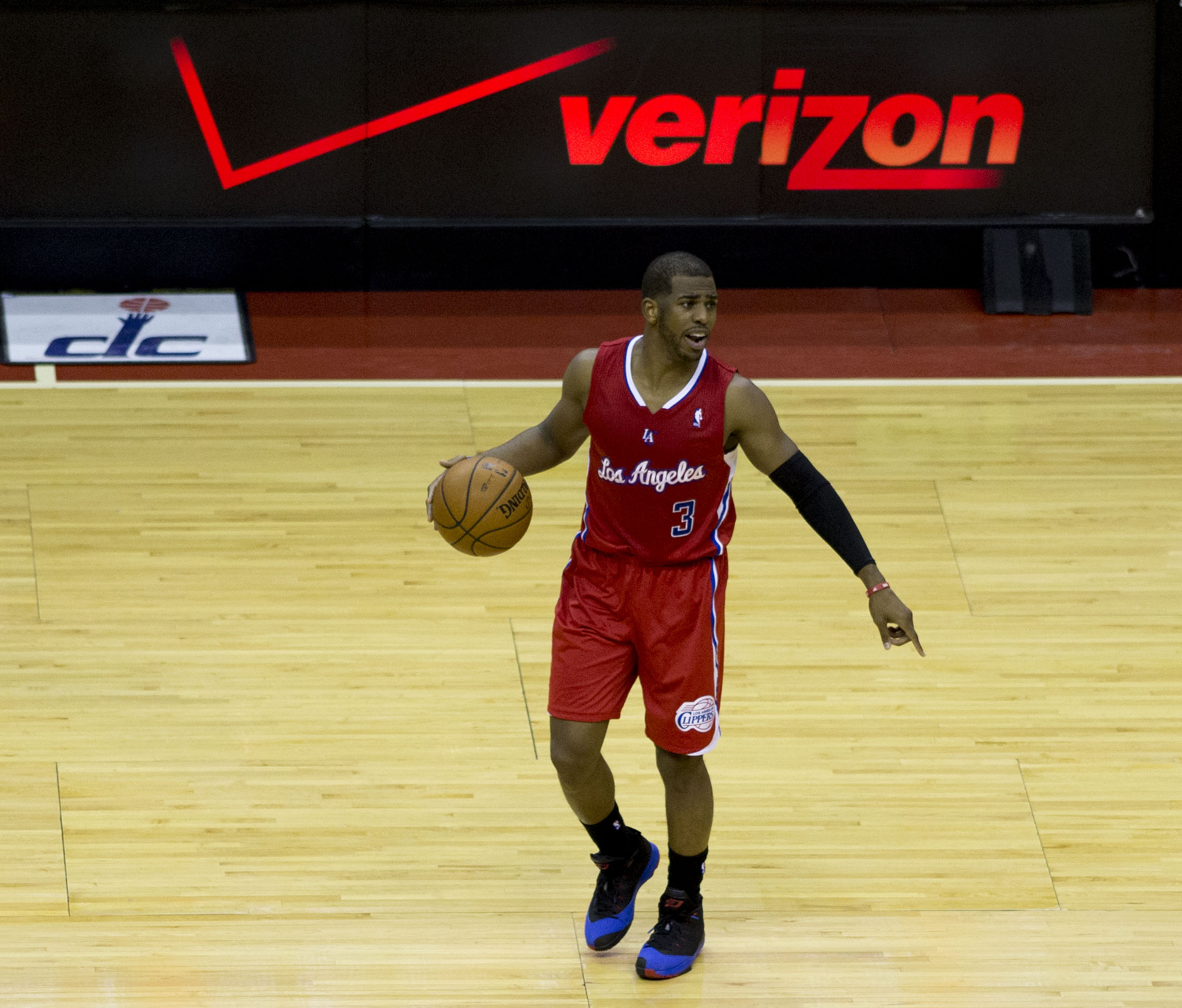 Clippers at Wizards 12/14/13